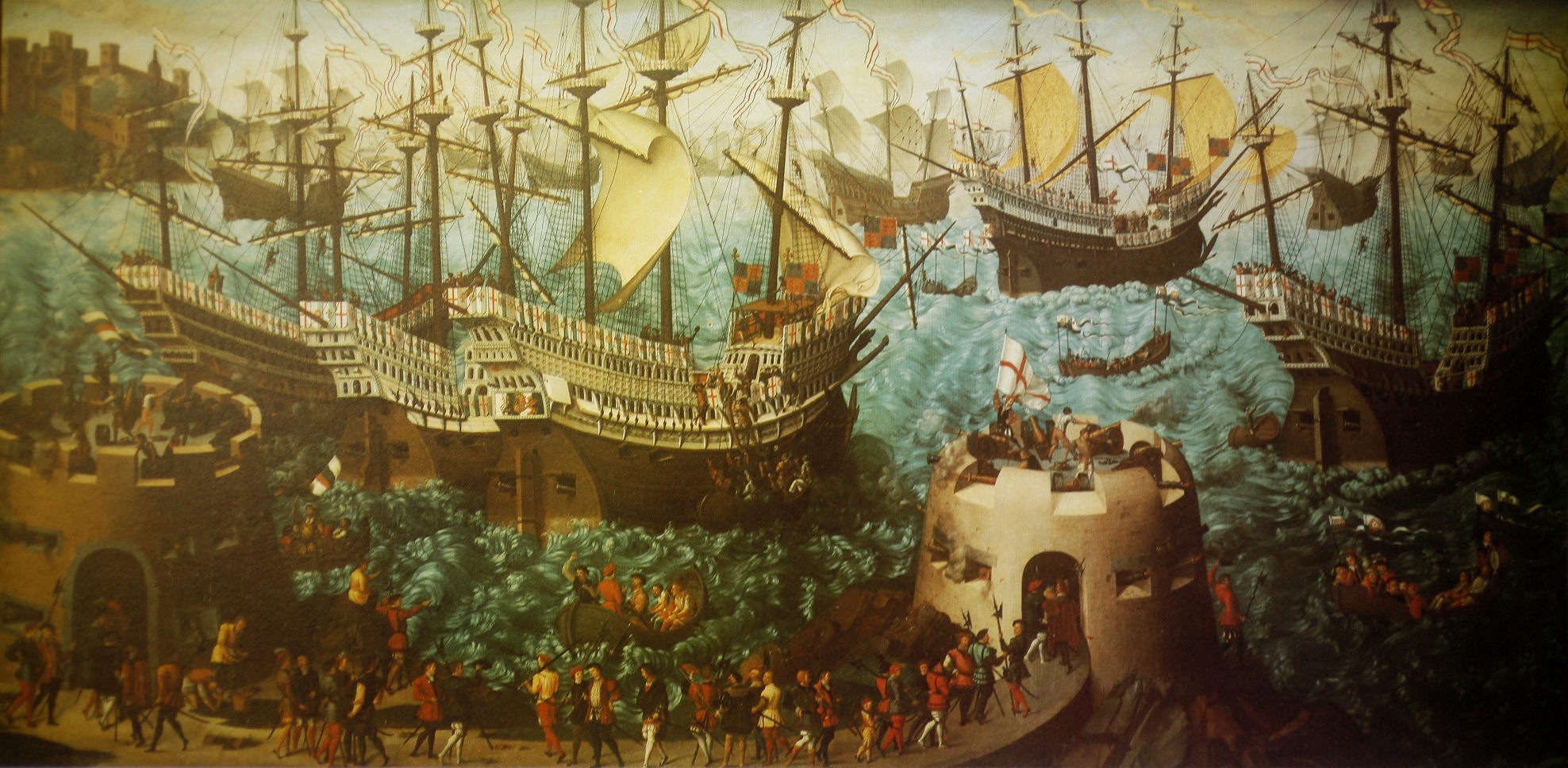 This bright painting shows Henry VIII and his fleet setting sail from Dover to Calais on 31 May 1520 on the way to meet Francis I at The Field of Cloth of Gold. Henry VIII is shown standing on one of the vessel with golden sails in the background. The lack of artistic proprtion in depicting the size of the ships may be an intentional device to convey the impressive nature of this journey and the overwhelming magnificence of the English court. Dover castle is depicted in the upper left-hand corner, and two round gun towers in the foreground fire salutes. The painting is not recorded in the 1542 and 1547 inventories, possibly because it was set into the walls of Whitehall Palace. It was probably commissioned by Henry VIII to commemorate the lavish event and may have been created as a companion piece to The Field of Cloth of Gold (RCIN 405794).